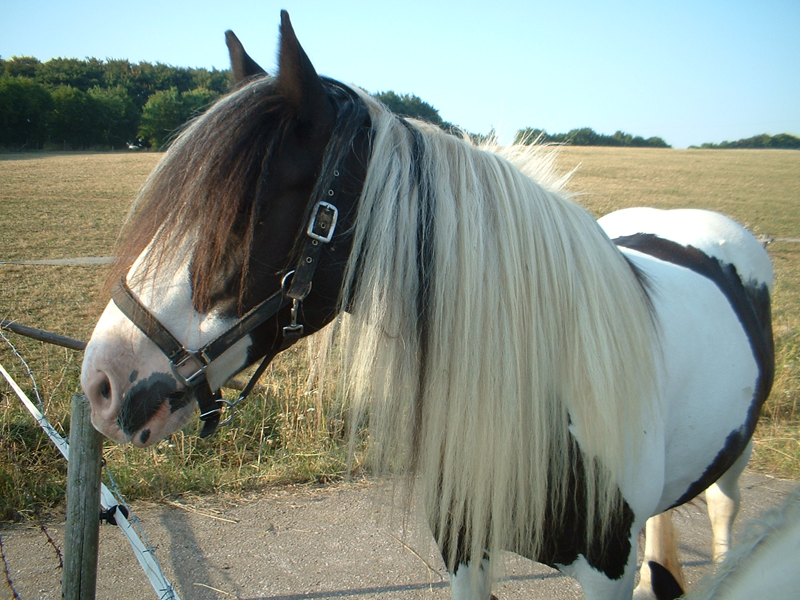 example for a horse mane